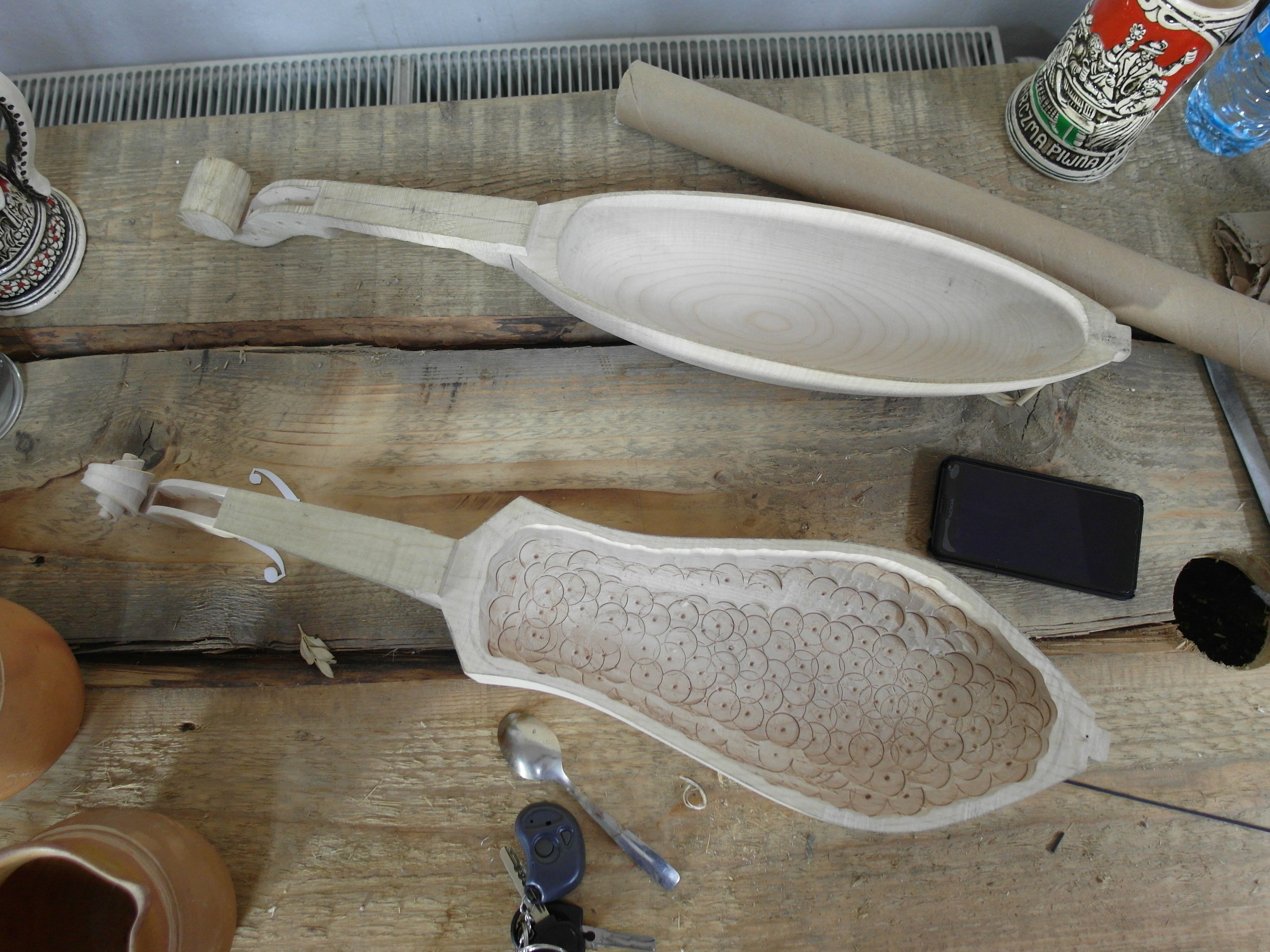 Folk musical instruments workshop, Żywiec Beskids